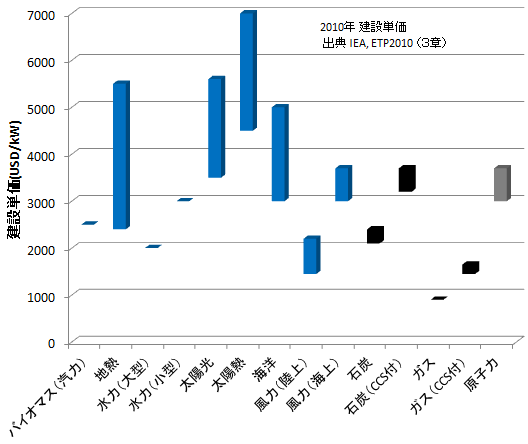 Investment Cost of Electricity Generation Plants (2010) Data source: IEA, Energy Technology Perspectives 2010, Chapter 3, Table 3.2 - 3.5 In Japanese